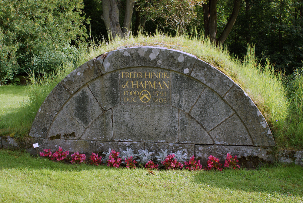 Picture of Ship engineer Fredric Henry of Chapman's tombstone